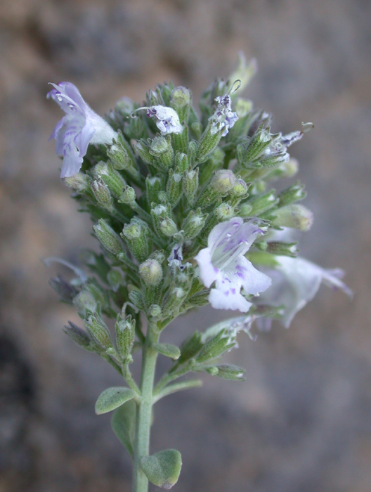 Micromeria fruticosa (L.) Druce (זוטה לבנה), Mount Carmel, Israel, November 10, 2006. Also called Micromeria serpyllifolia (M.Bieb.) Boiss.